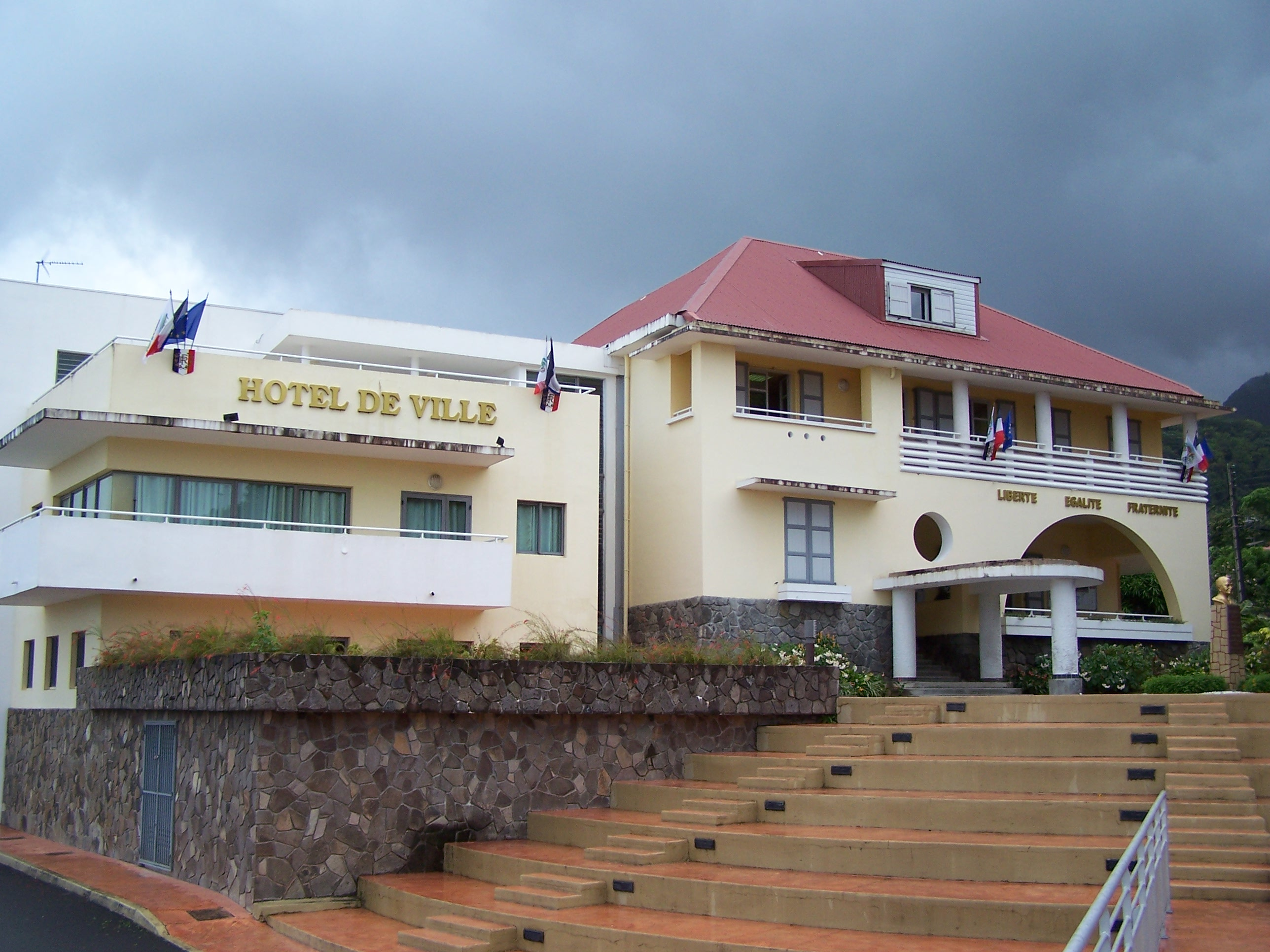 Mairie de Saint-Claude, Guadeloupe